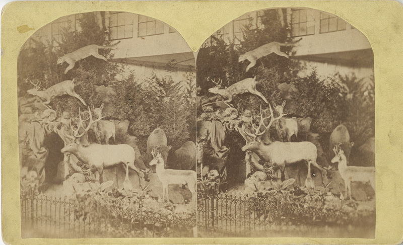 Stereograph of taxidermist and naturalist Martha Maxwell’s exhibit at the Philadelphia Centennial Exposition in 1876. Mrs. Maxwell’s Rocky Mountain display appeared in the Kansas-Colorado Building rather than the Women’s Pavilion. It reconstructed a natural landscape filled with wildlife specimens, many of which she herself had killed, and all of which she had mounted. Maxwell’s exhibition was extremely popular and the fair’s official photographic firm, the Centennial Photographic Company, could not keep up with the demand for photographs. Information summarized from